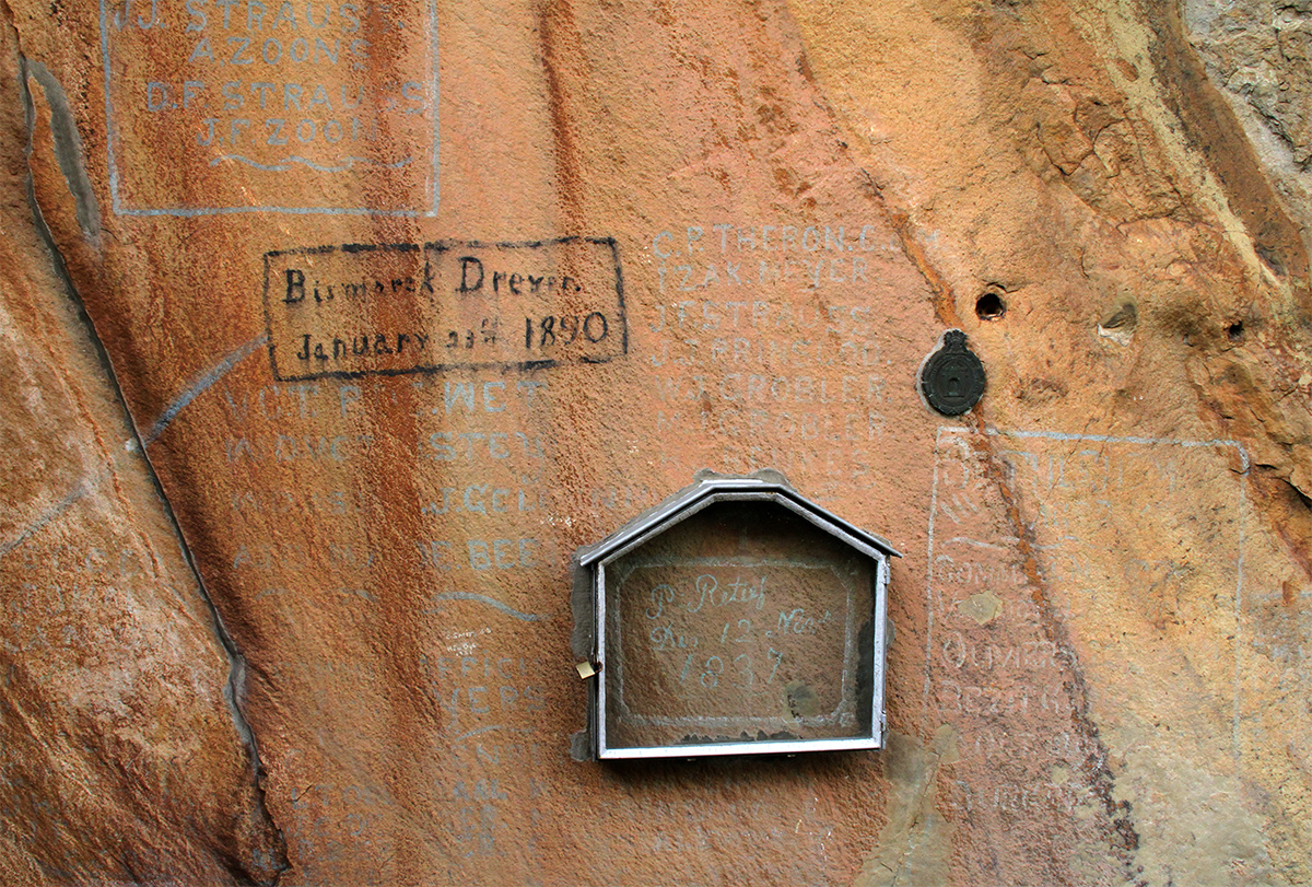 Debora Retief, daughter of voortrekker Piet Retief, painted her father's name on this rock at Kerkenberg, eastern Free State, to commemorate his 57th birthday on the 12th November 1837. On 10 October 1899, members of the Bethlehem commando also recorded their names here, when they arrived to guard a pass on the Free State border at the start of the Boer War.